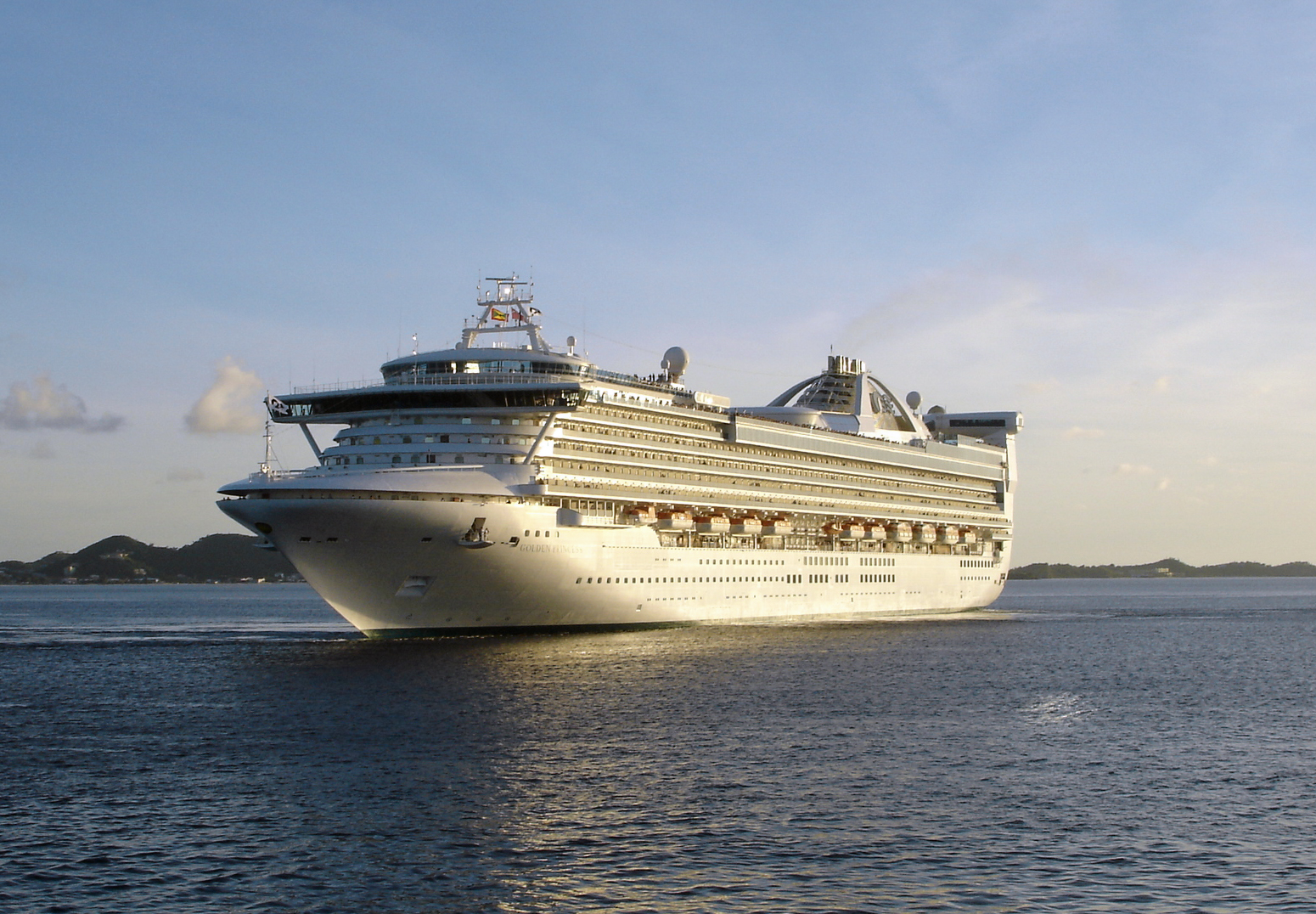 Cruise ship Golden Princess